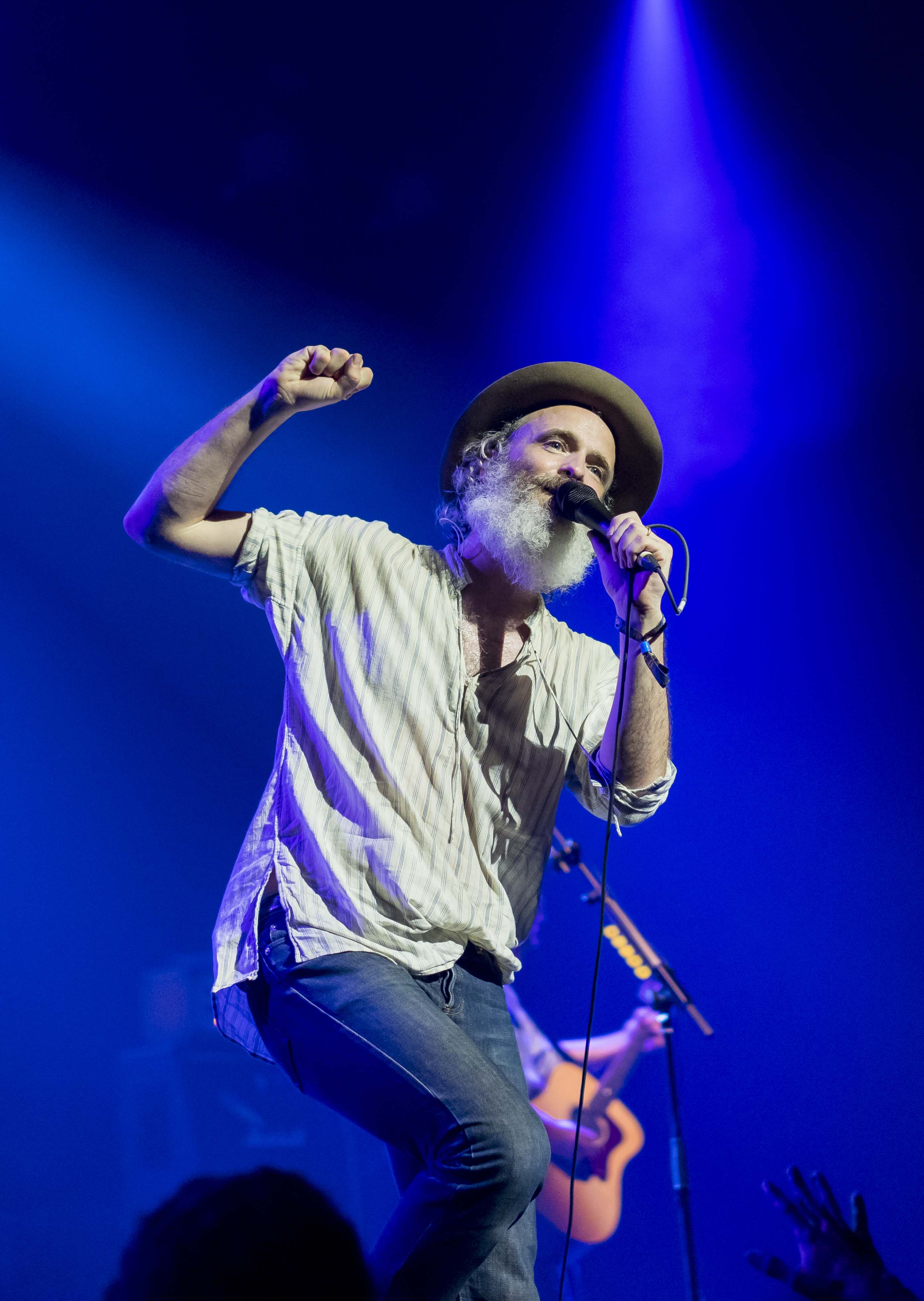 fran healy travis singapore the gathering the star theatre 2014